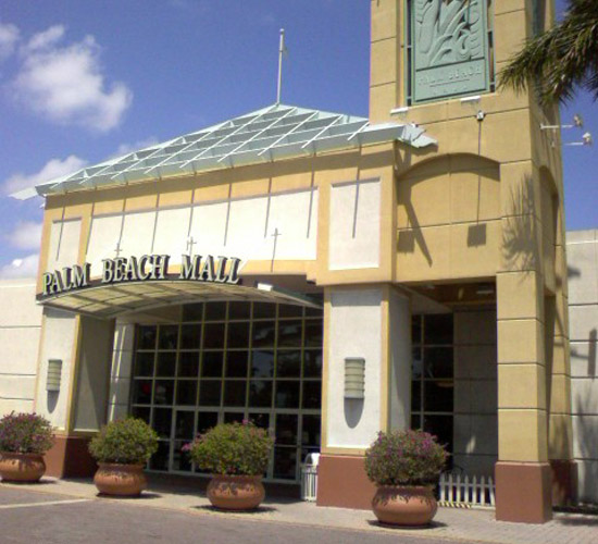 The main entrance into the Palm Beach Mall in West Palm Beach, Florida.